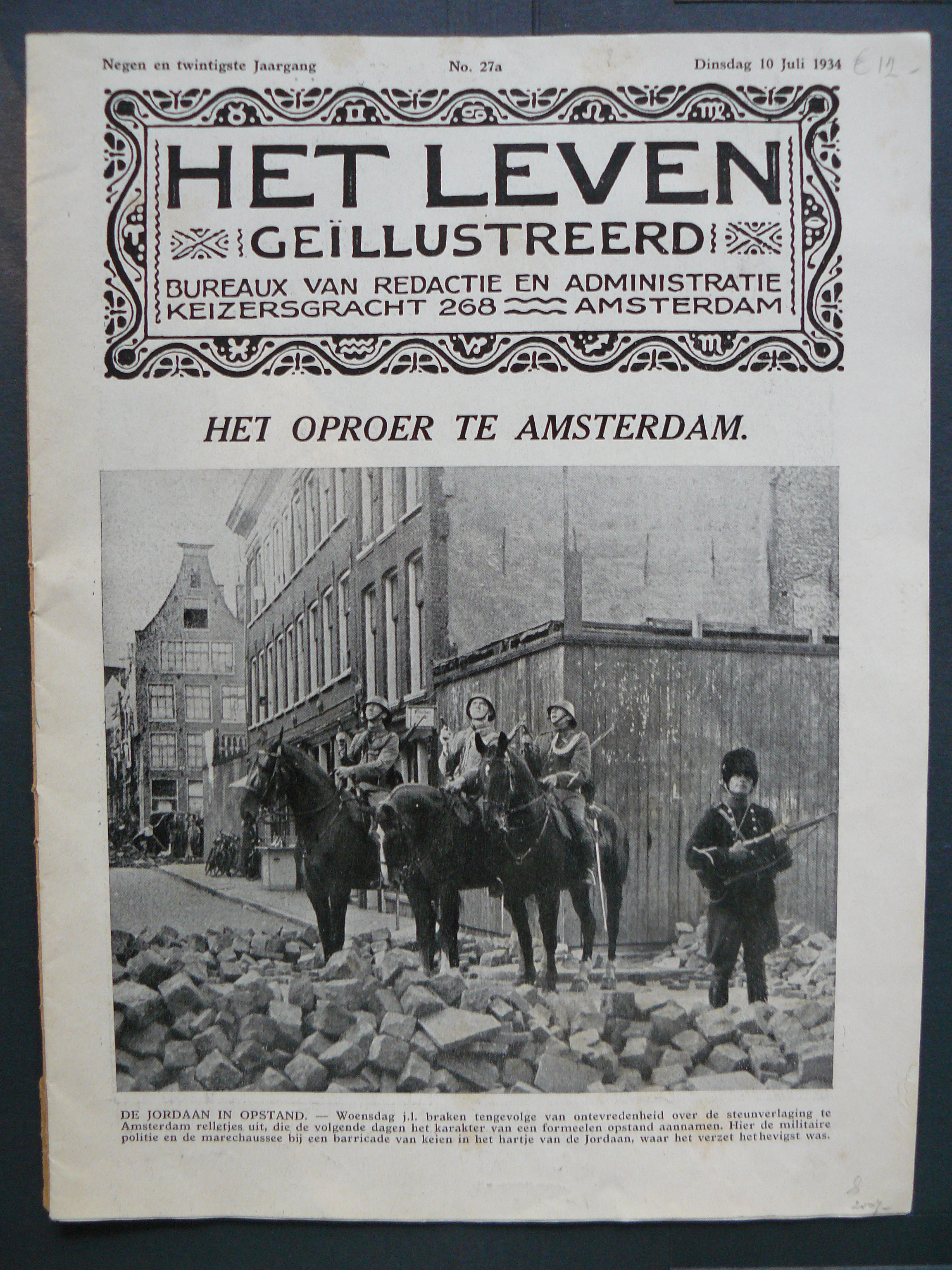 Front of the extra edition of the Dutch illustrated weekly Het Leven (The Life) July 10, 1934